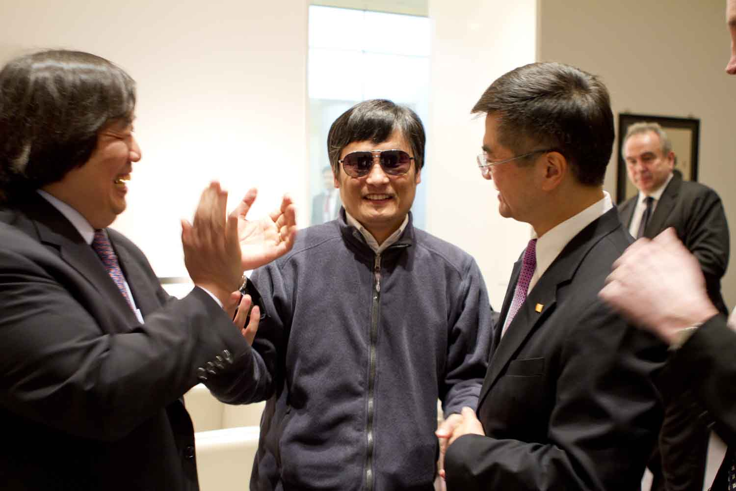 U.S. Ambassador to China Gary Locke, right; Legal Adviser of the U.S. Department of State, right; with Chen Guangcheng, center; at the U.S. Embassy in Beijing, China, on May 1, 2012. [State Department photo/ Public Domain]